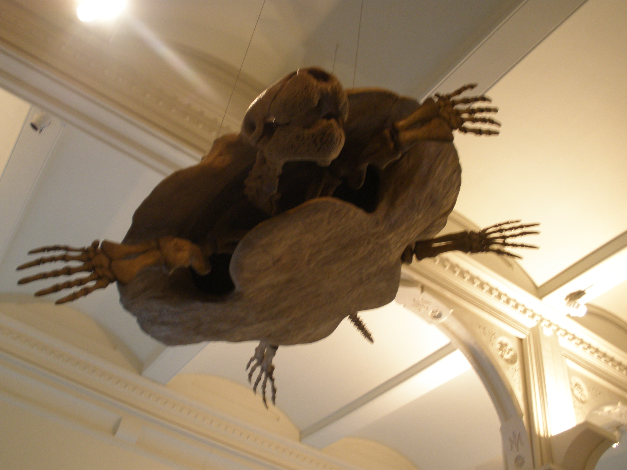 fossil of Stupendemys, an extinct turtle